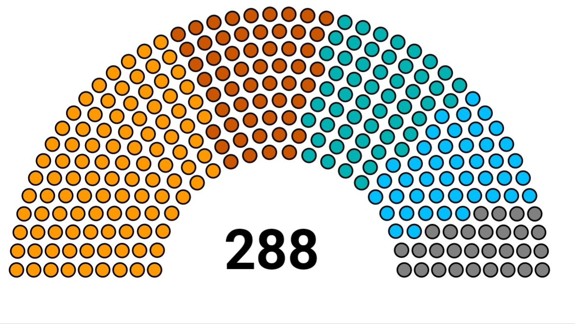 This is the arch style diagrammatic representation of the 2019 Maharashtra Legislative Assembly elections seat share